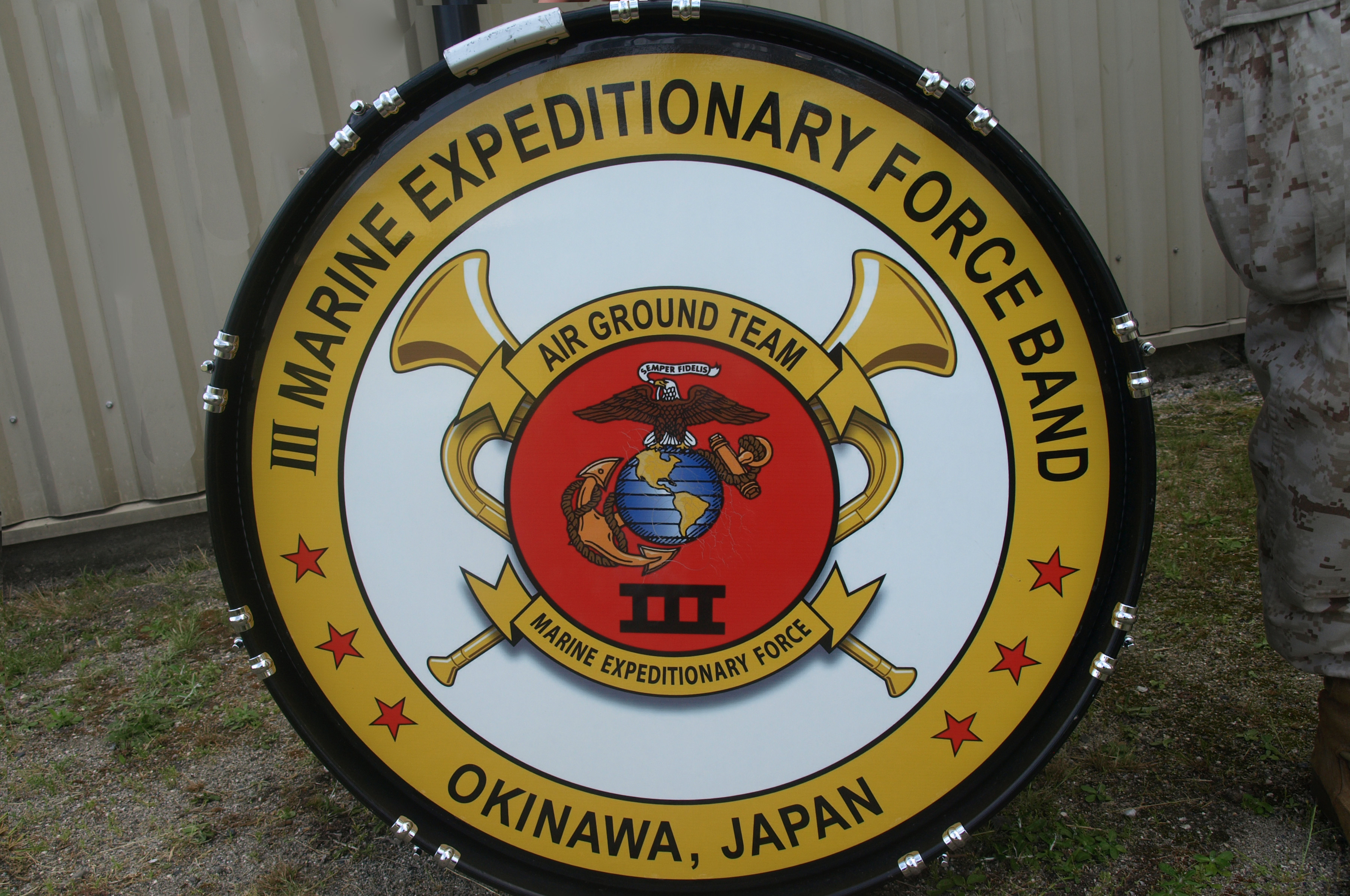 III MEF Band Bass Drum Head